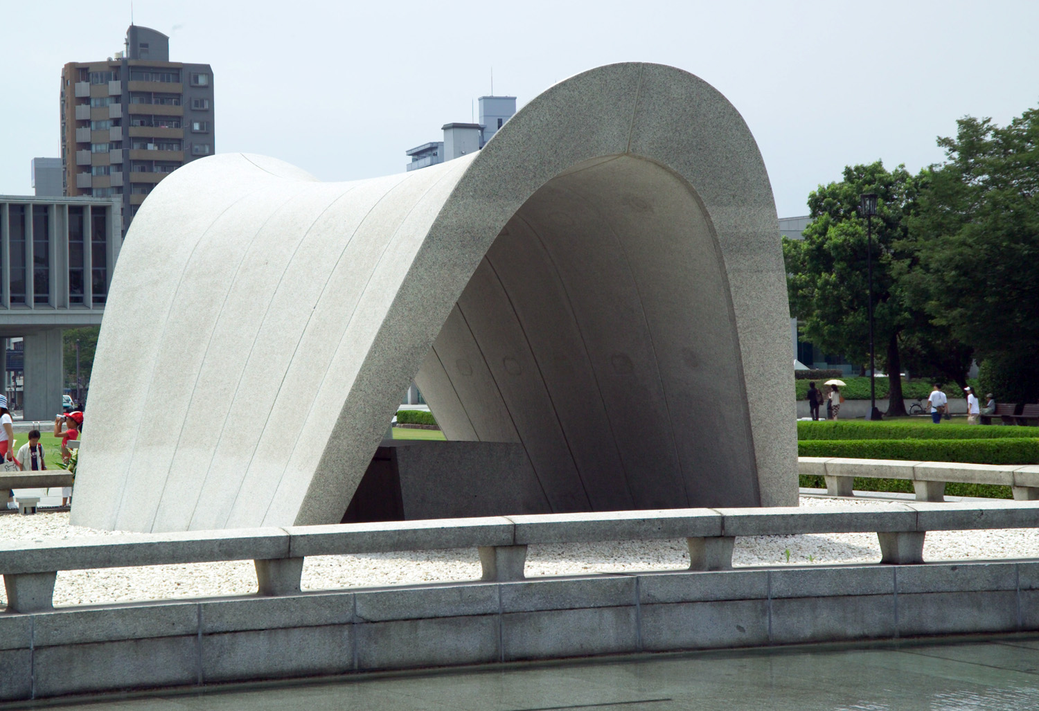 Cenotaph and Peace Museum, Peace Park, Hiroshima, Japan. I took the photo.